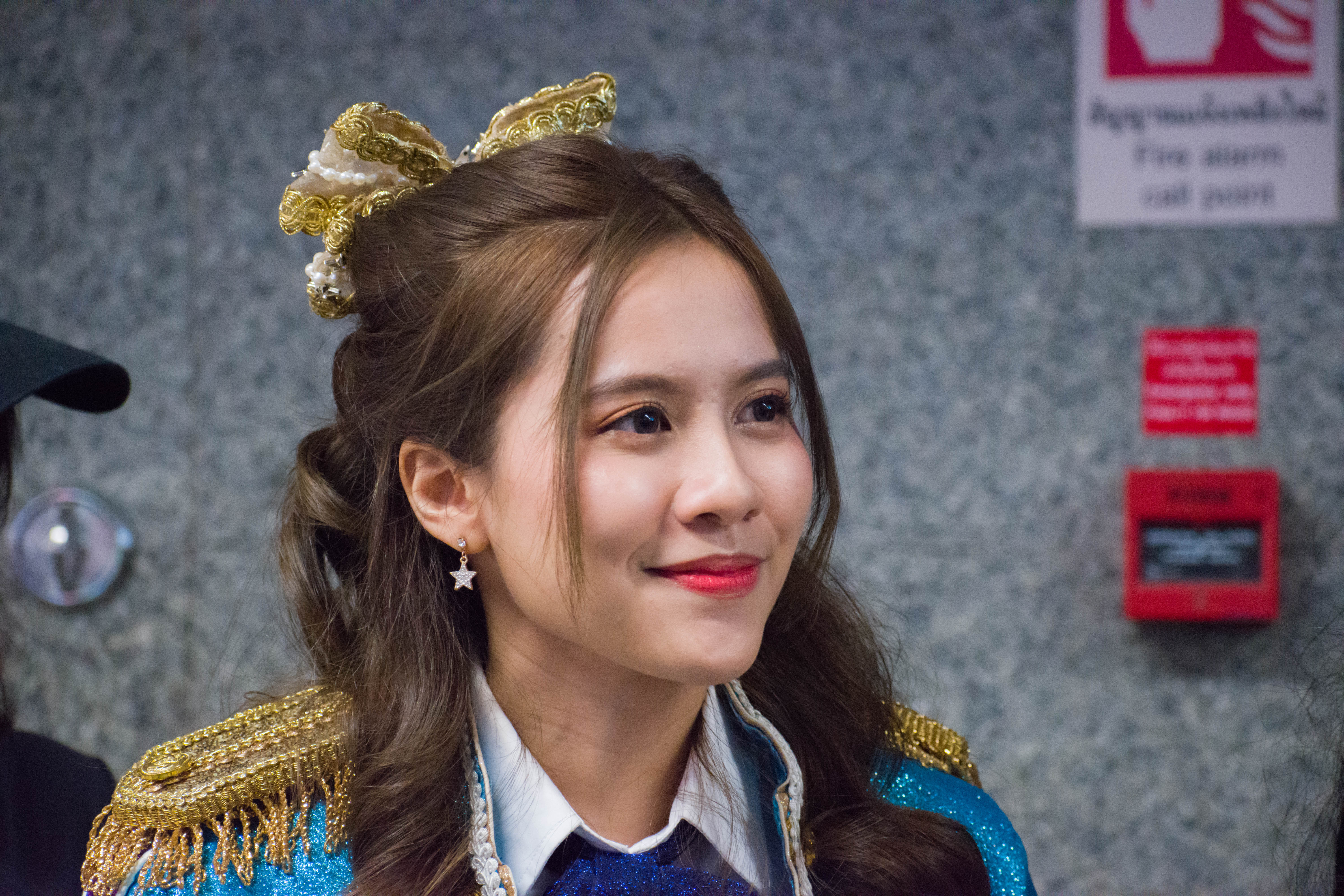 Milin Dokthian (Namneung BNK48) during her event with 5 other members of BNK48 at Metro Mall, MRT Chatuchak, Bangkok, Thailand.